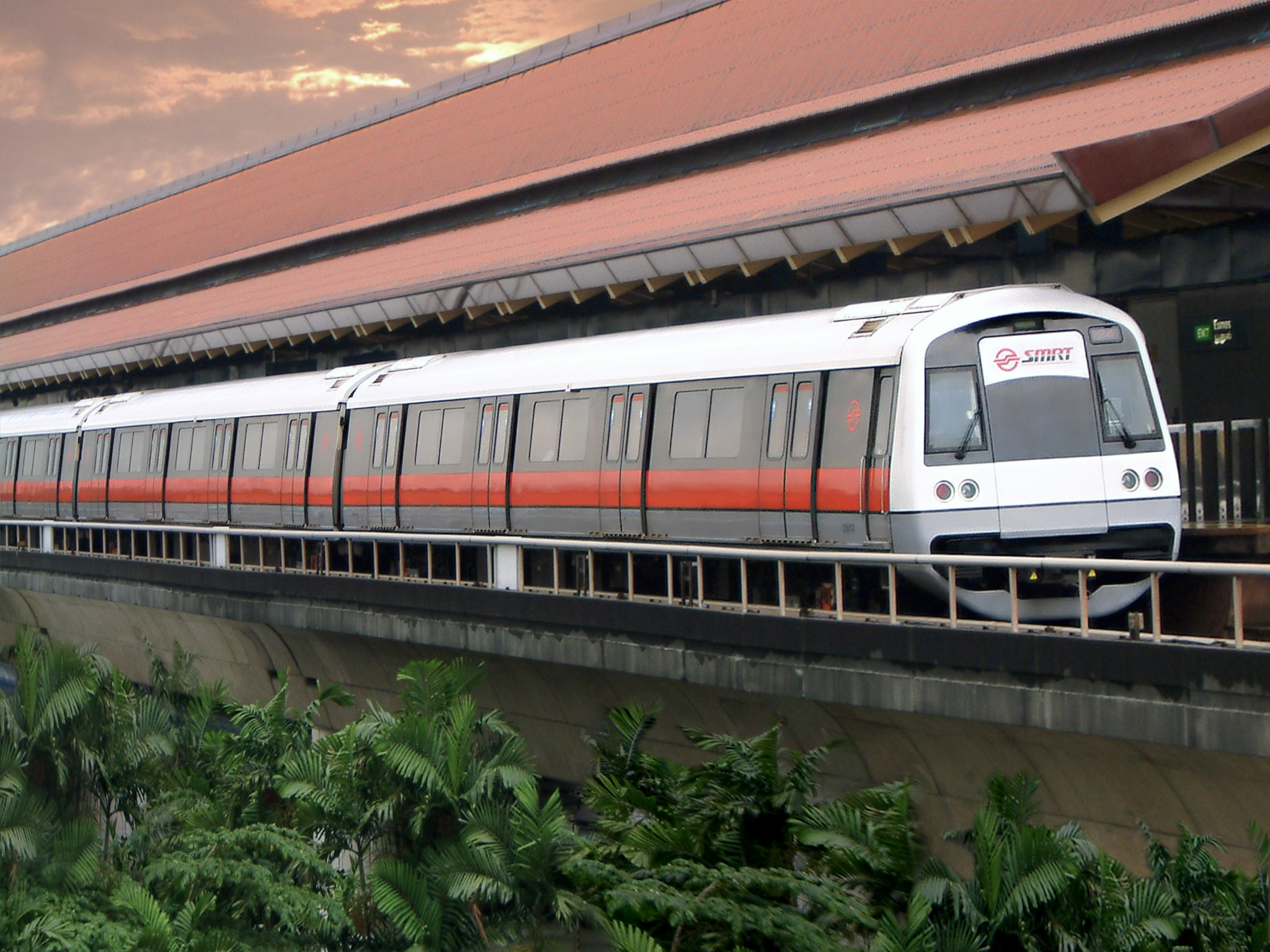 A Kawasaki Heavy Industries - Nippon Sharyo C751 Train at Bukit Batok MRT Station along the East West Line in Singapore. C751 Trains are the third generation of trains used in the SMRT Network.